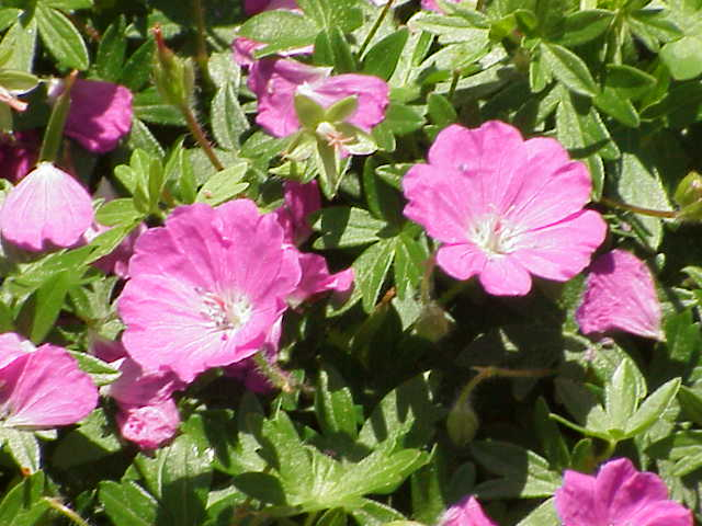 Species: Geranium sanguineum Family: Geraniaceae Image No. 1